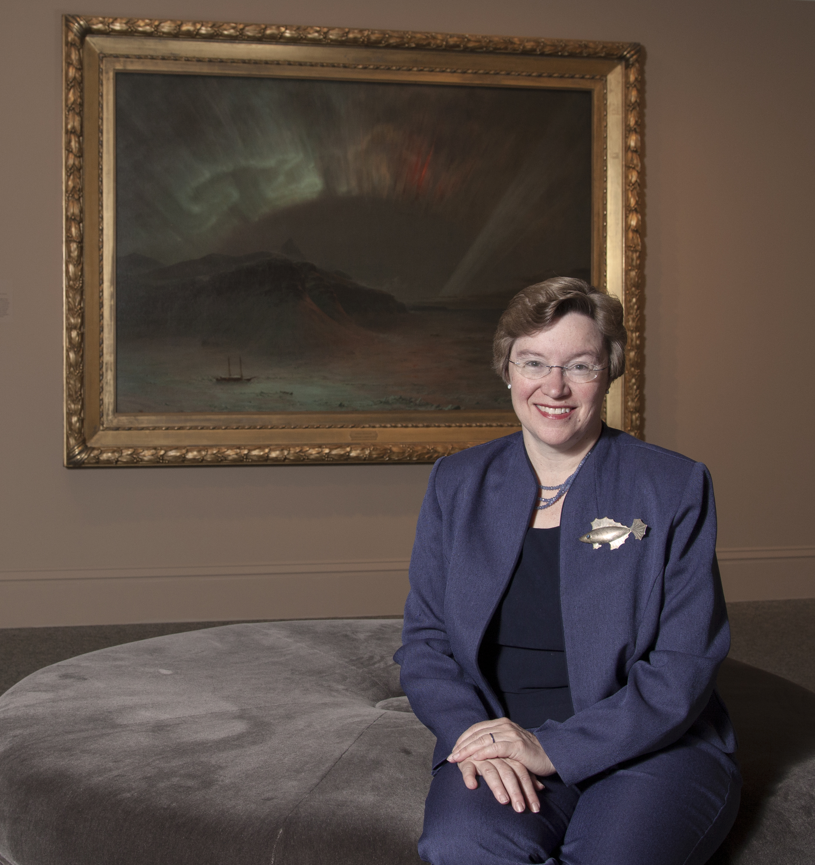 Curator Eleanor Jones Harvey in The Civil War and American Art exhibition at the Smithsonian American Art Museum